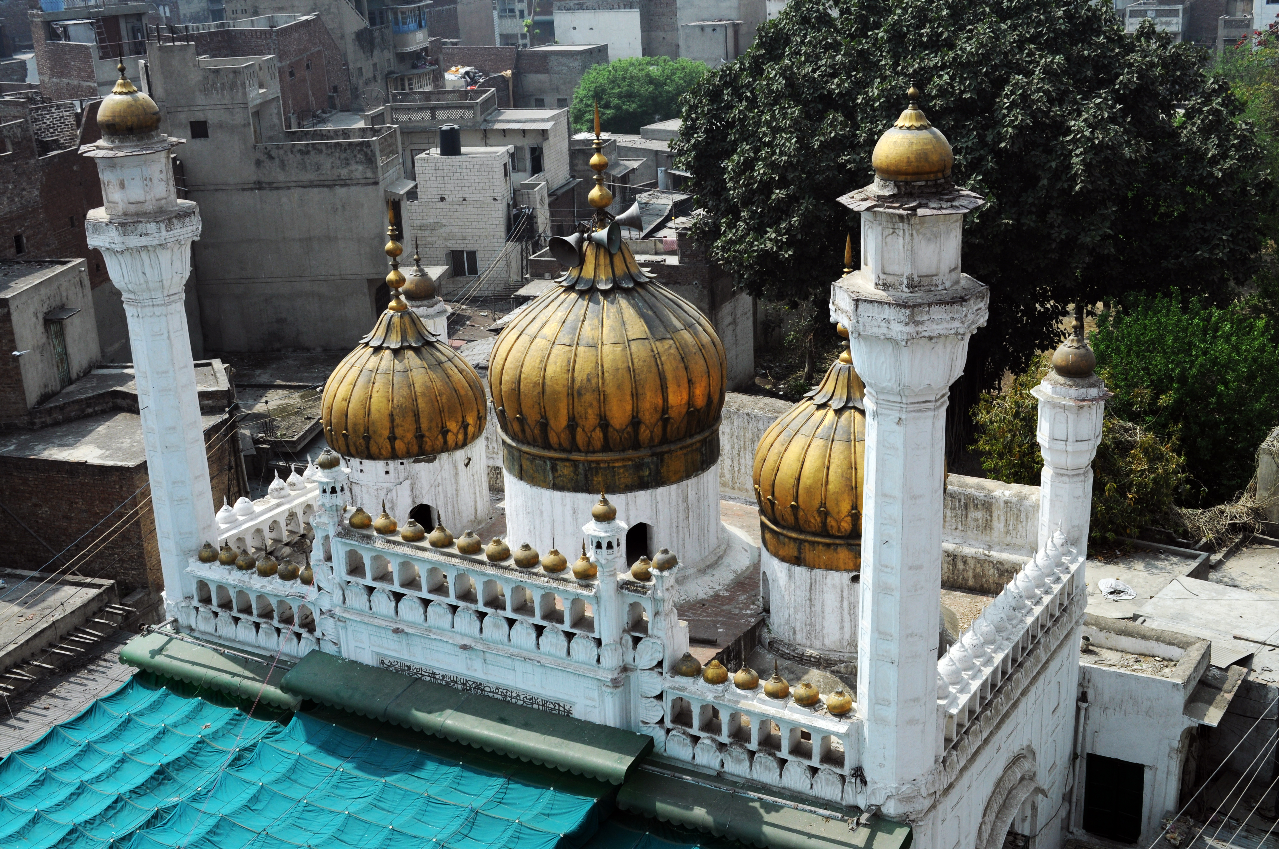 Sunehri Masjid (The Golden Mosque) This is a photo of a monument in Pakistan identified as the PB-P-97